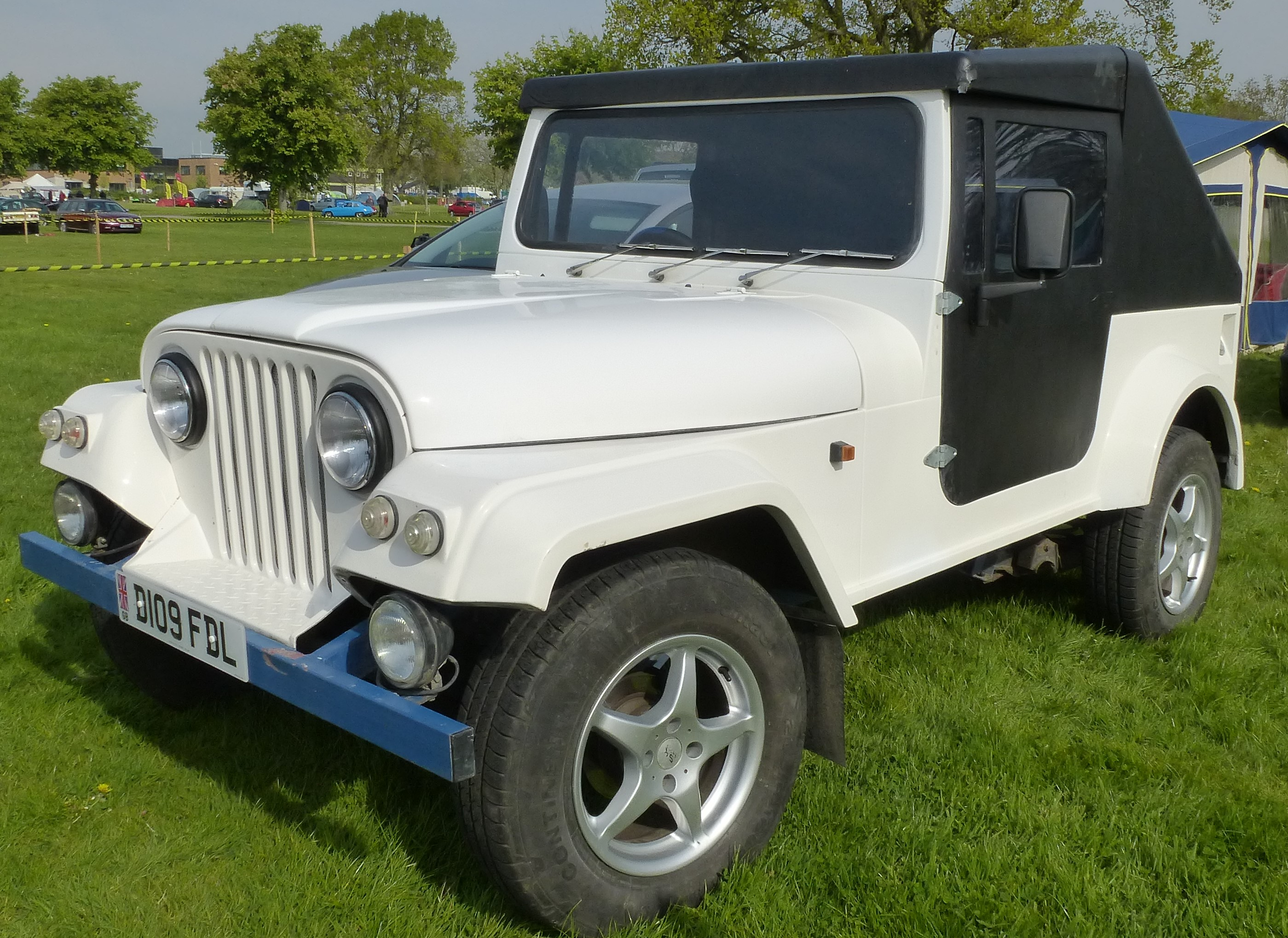 Eagle RV